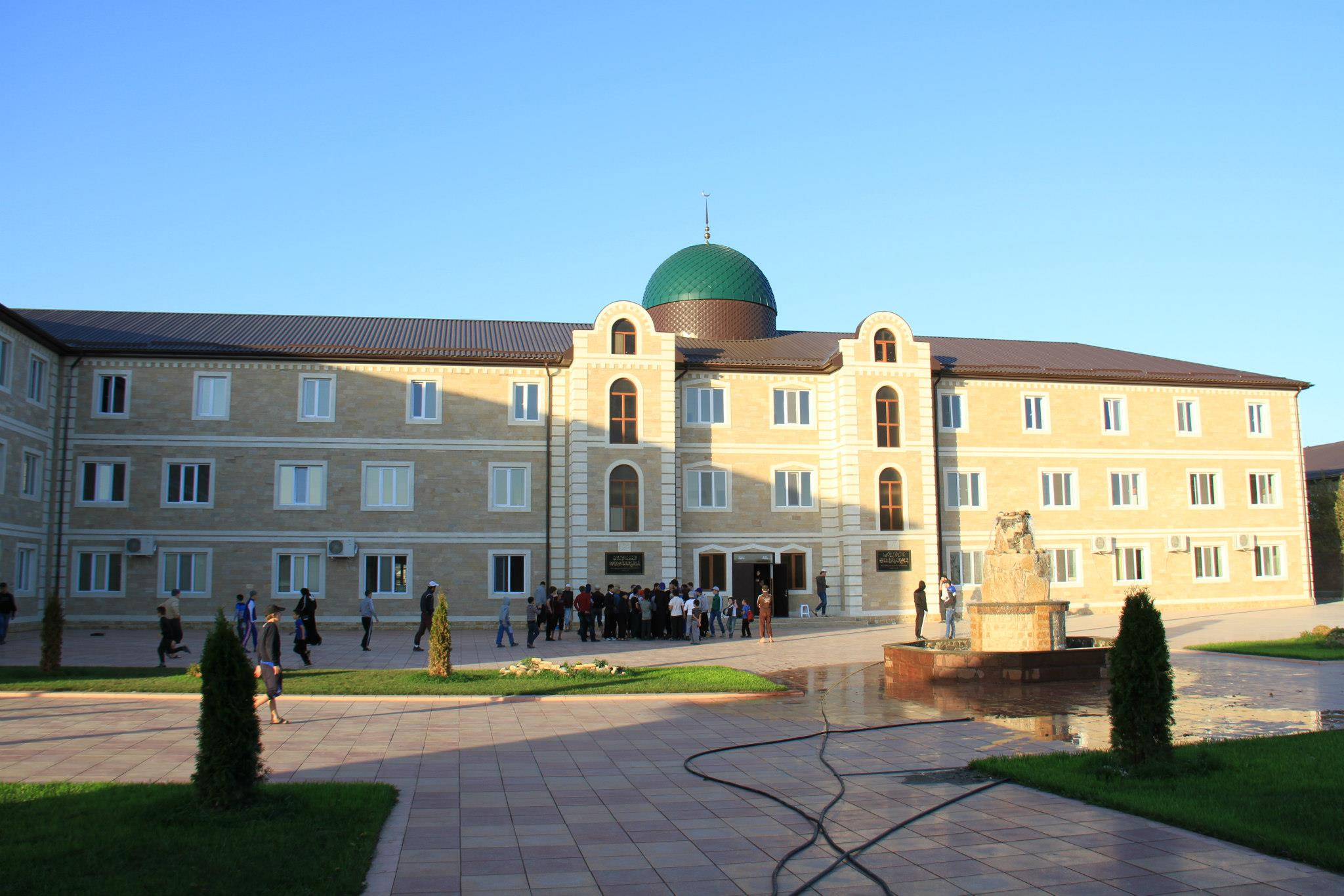 Islamic school in Sasitli village (Dagestan-Russia)